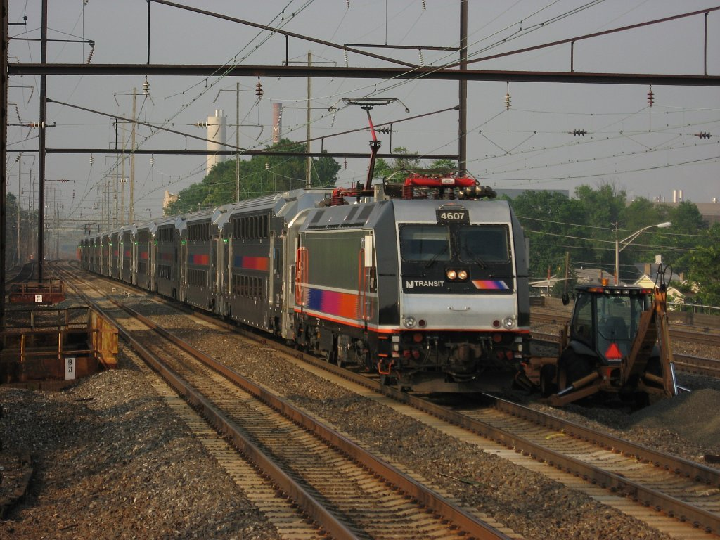 New Jersey Transit train 3967 running through the Rahway station on its way to Trenton. The entire train is composed of vehicles made by Bombardier---two ALP-46 locomotives (one at each end) and 11 bilevel passenger cars.